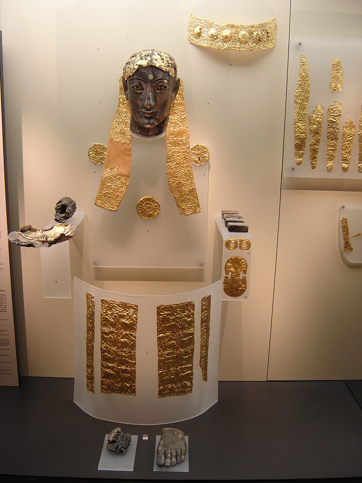 Jewelry. Archaeological Museum of Delphi, Greece.